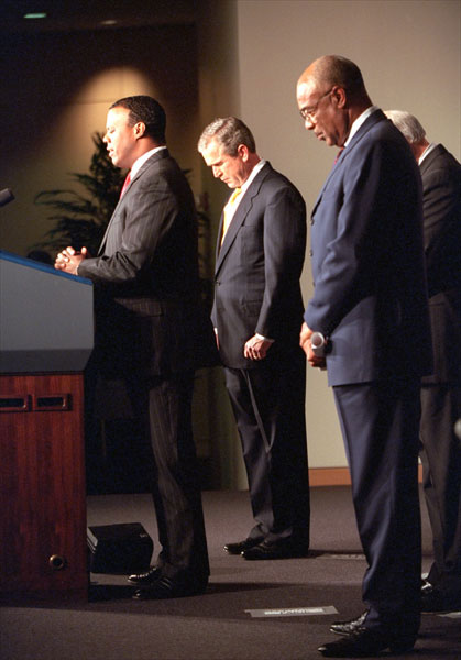 President George W. Bush bows his head as Rep. J.C. Watts, Jr. (R.-Okla.) leads a prayer before the swearing-in ceremony for Rod Paige, right, as Secretary of Education in the Barnard Auditorium at the Department of Education Jan. 24, 2001.